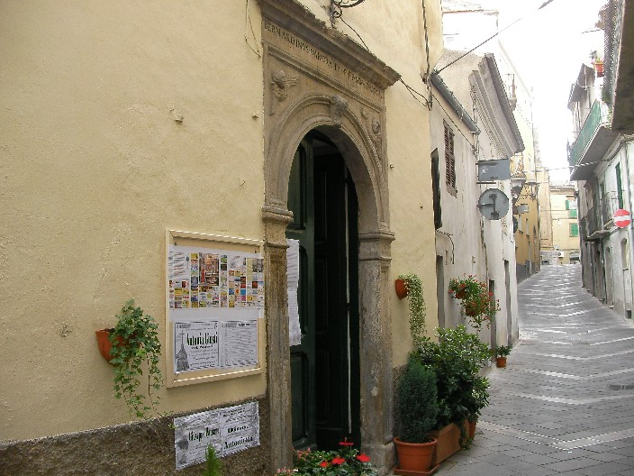 The portal of the church of Madonna Immacolata della Cintura to Atessa